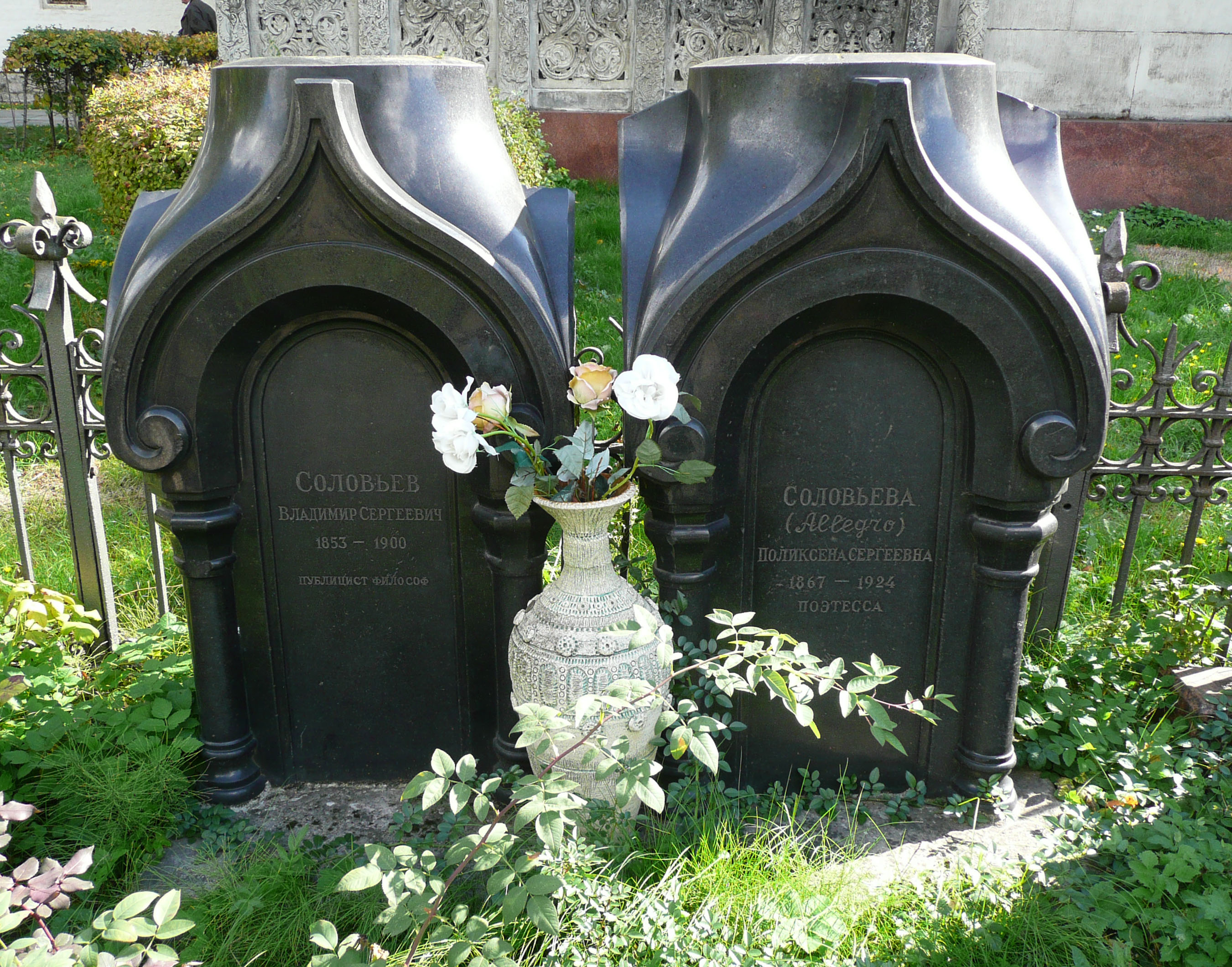 Tomb of Vladimir Solovyov and his sister Polyxena at the Novodevichy Convent, Moscow